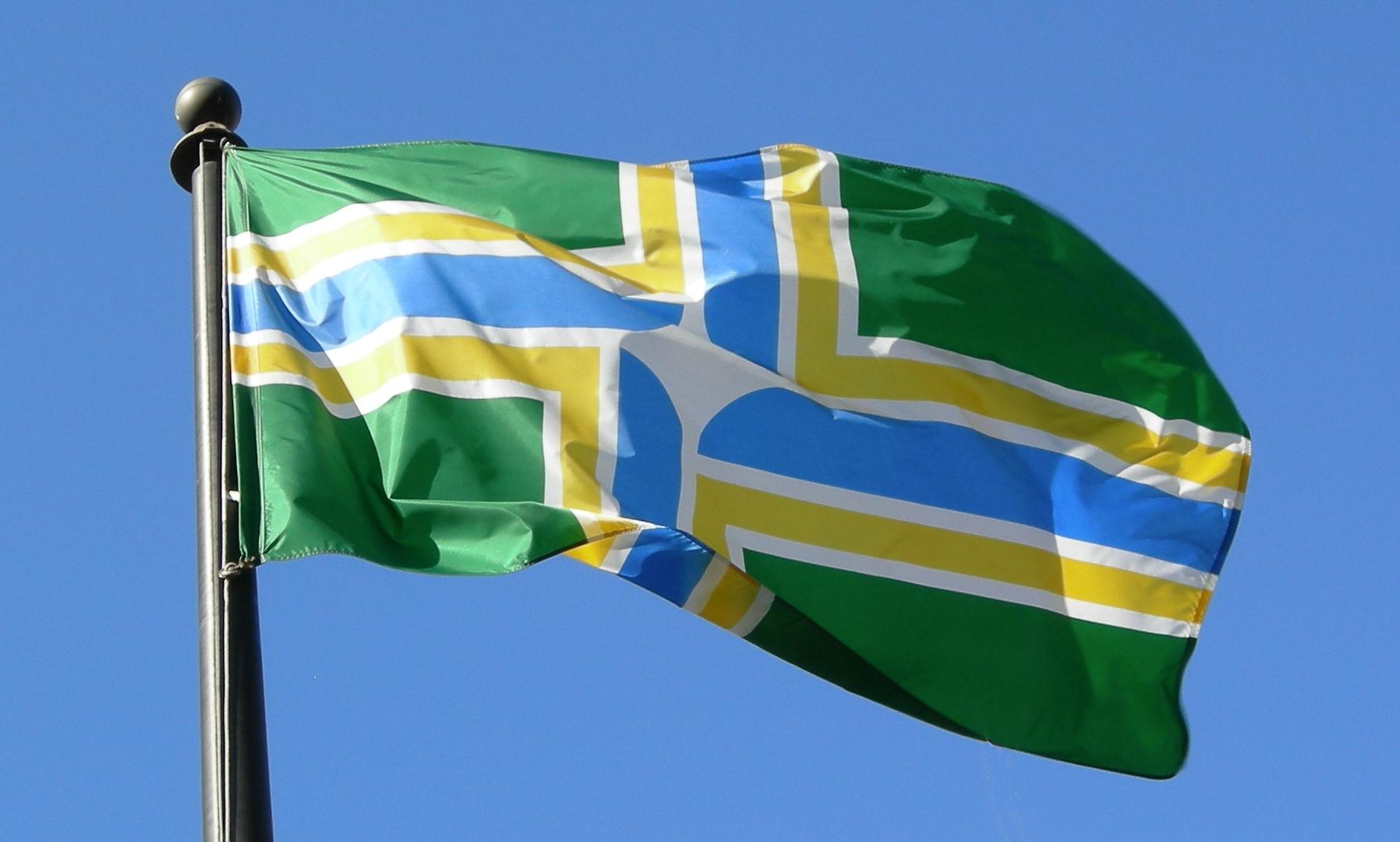 The flag of the city of Portland, Oregon flying in Pioneer Courthouse Square (upside-down)